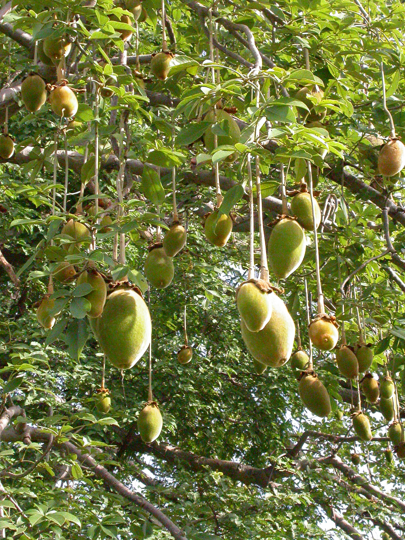 African Baobab. Fruits of african baobab (Adansonia digitata) near Pic de Nahouri, Burkina Faso.